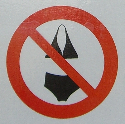 Commonly used as a sign at the entrance to commercial premises where swim-wear is thought inappropriate and as a reminder that entrants should be properly dressed. Also used at the entrance to some hotel naturist terraces to indicate that swim-wear should be removed.